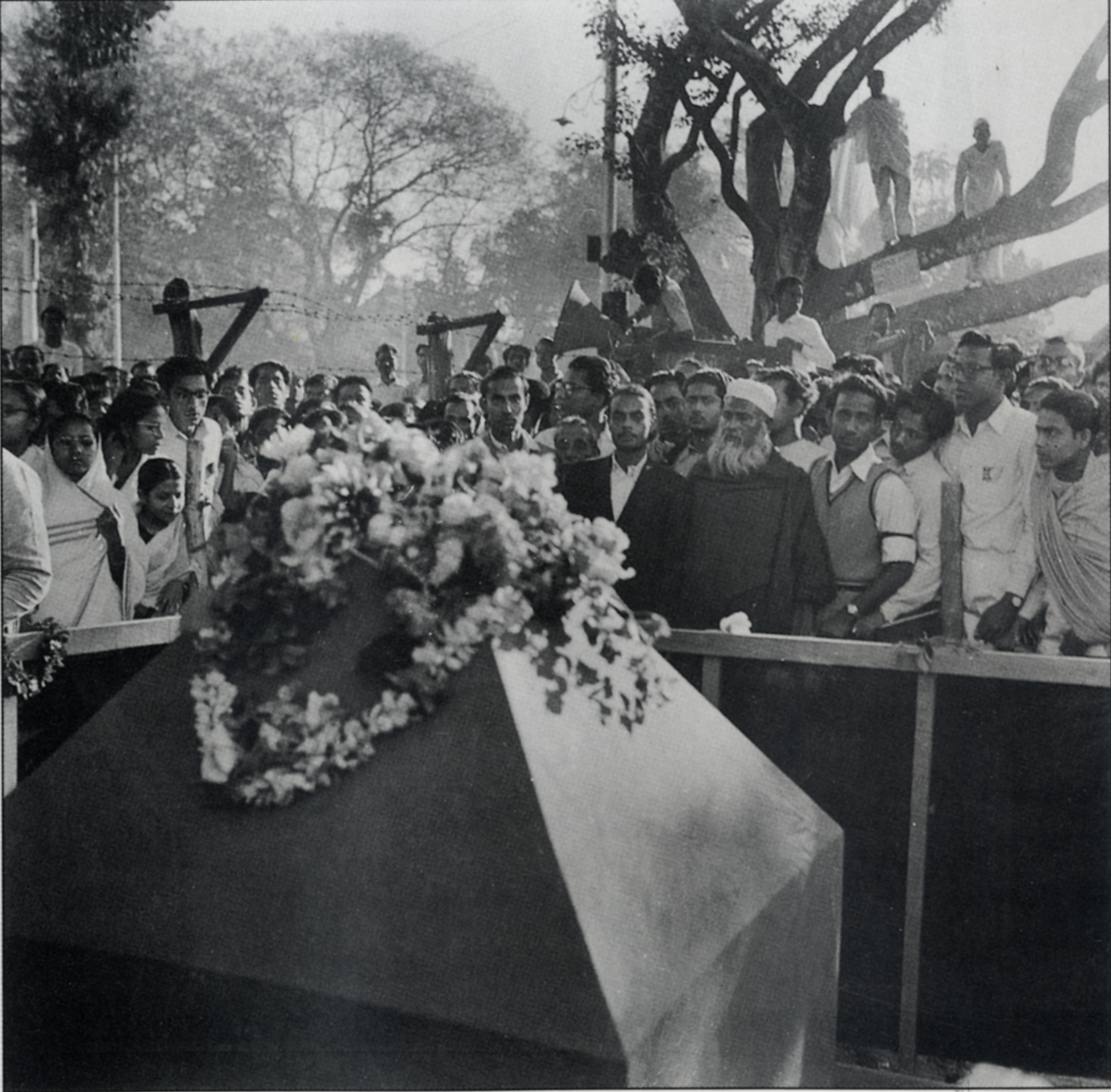 21st February, 1956 - on Language Movement Day. Maulana Abdul Hamid Khan Bhashani after the foundation stone laying program for Shahid Minar (Martyrs' monument).